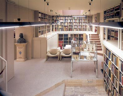 Interiors of the Bibliotheca Philosophica Hermetica aka Ritman Library in Amsterdam. (Location Bloemgracht.